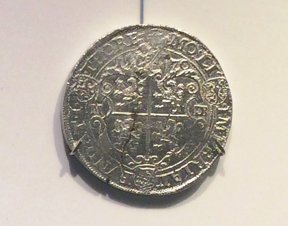 Coin (Thaler) issued in 1570 by a german imperial Abbey of Thorn (german: Thoren, Thorn), in what is today the Netherlands (Thorn). It was found as part of the 141 coin hoard of german mercenaries in Fortuna Utca (Street), Buda, Hungary